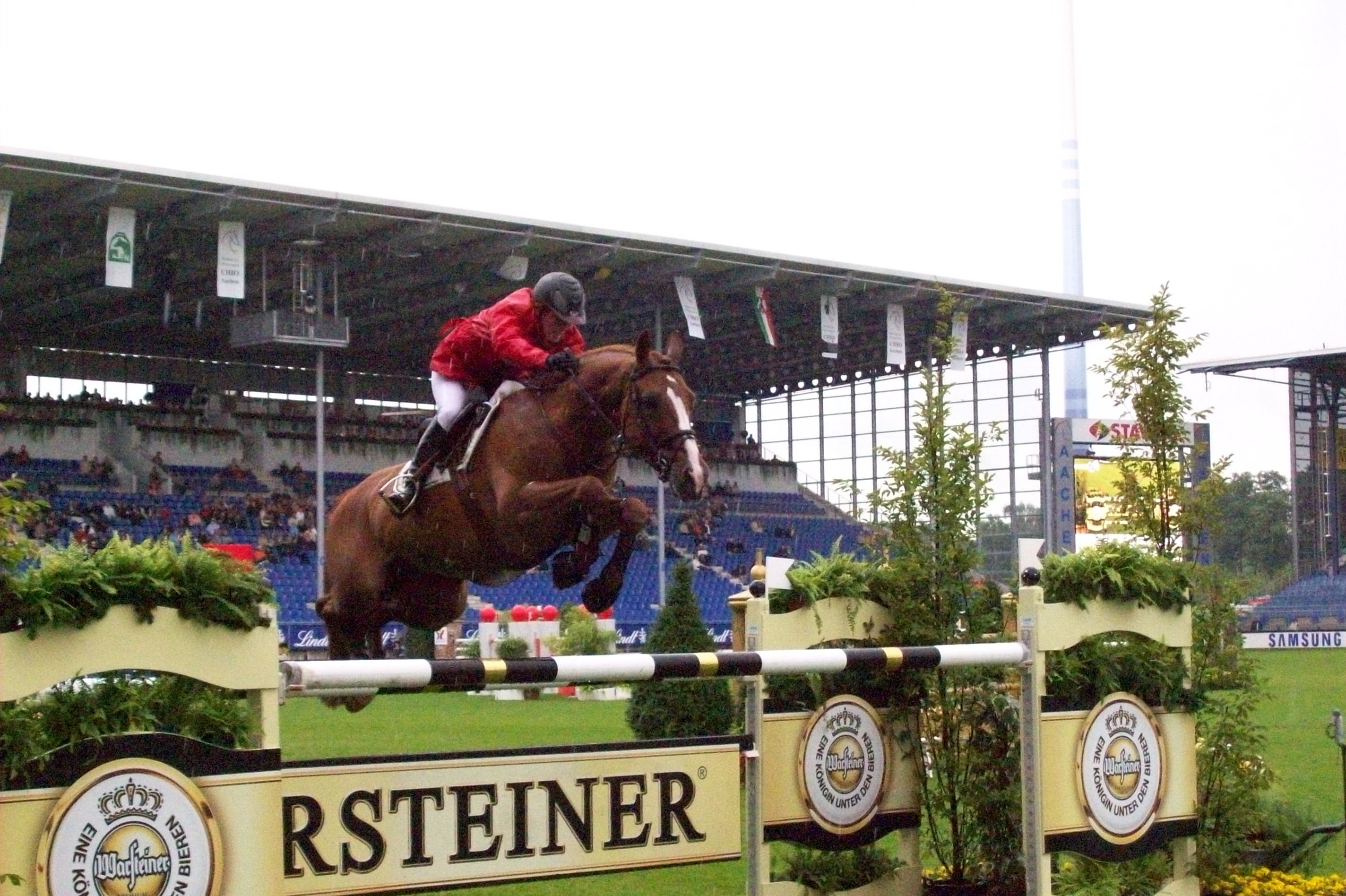 Meredith Michaels-Beerbaum on Le Mans during WARSTEINER-Prize - Prize of Europe, CHIO Aachen 2007, Germany